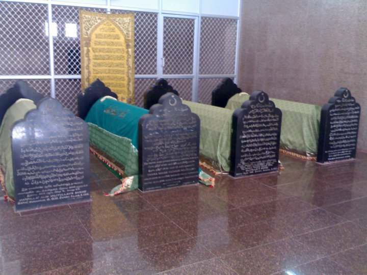 The tombs of 4 Arusi-Qadiri Shaikhs at the Arusiyya Tekke in Kilakarai, South India (R-L): (1) Sahib al-Khalwa Abdul Qadir (2) Taika Ahmad Abdul Qadir (3) Imam al-Arus Sayyid Muhammad (4) Taika Sahib al-Kirkari Abdul Qadir.